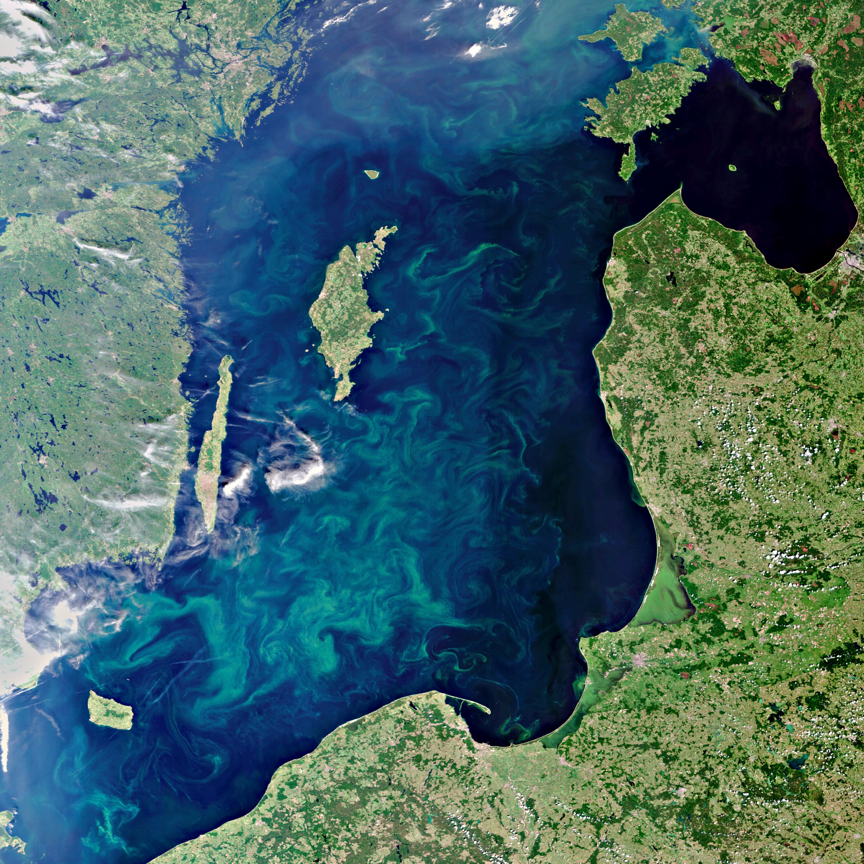 This Envisat image captures blue-green algae blooms filling the Baltic Sea. 'Algae bloom' is the term used to describe the rapid multiplying of phytoplankton, microscopic marine plants that drift on or near the surface of the sea. While individually microscopic, the chlorophyll that phytoplankton use for photosynthesis collectively tints the surrounding ocean waters, providing a means of detecting these tiny organisms from space with dedicated 'ocean colour' sensors, like Envisat's Medium Resolution Imaging Spectrometer (MERIS) that acquired this image on 11 July 2010.